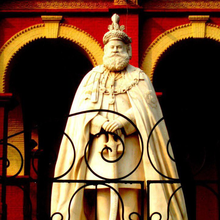 Photo of Darbhanga Maharaj, Bihar